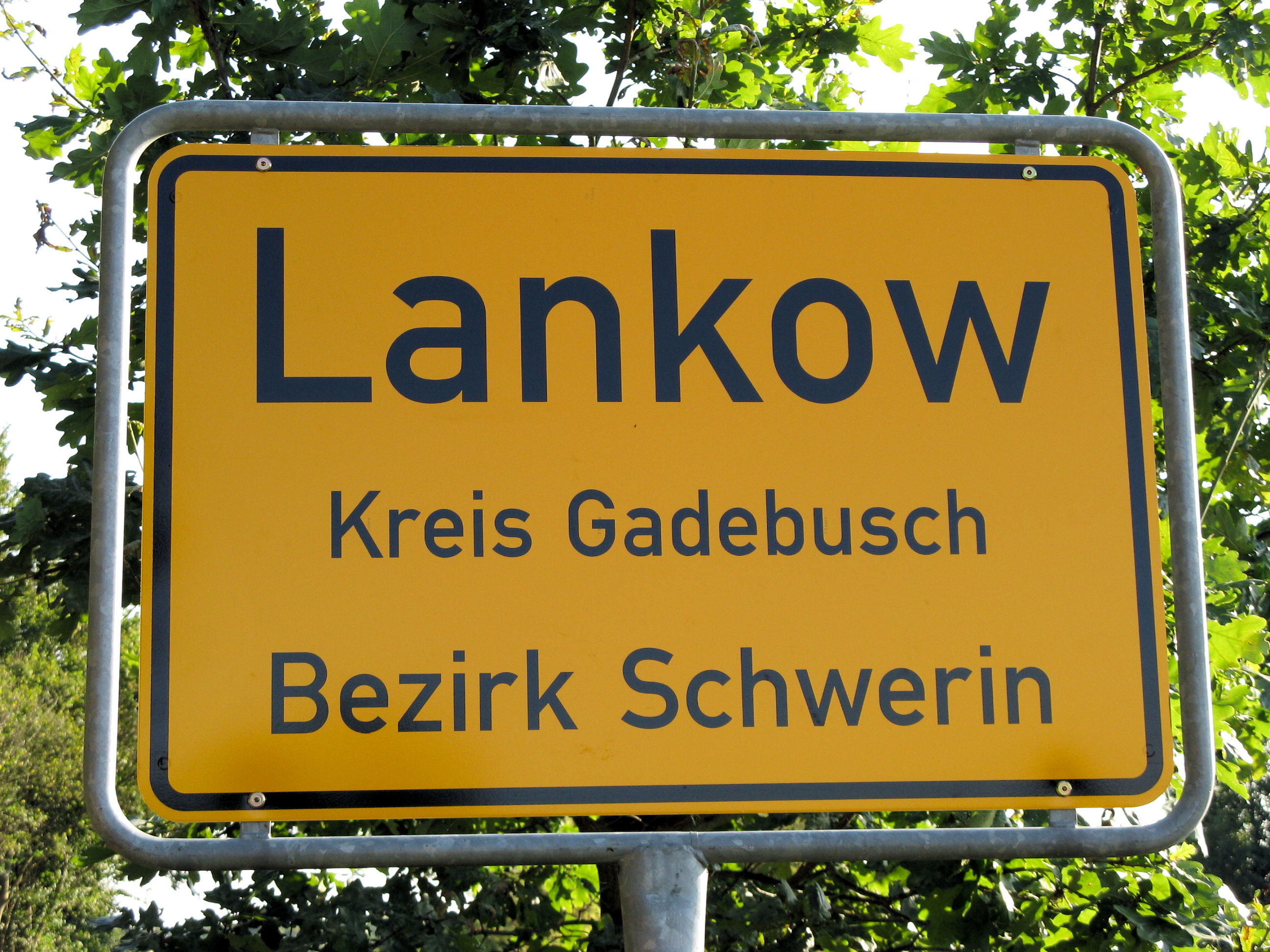 Symbolic city limit sign (put up in 2009) for the abandoned village Lankow, disctrict Nordwestmecklenburg, Mecklenburg-Vorpommern, Germany No text on the backside